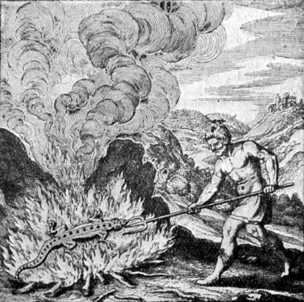 Salamander (legendary creature) (Emblem X from the "Book of Lambspring" in the Musaeum Hermeticum (1679), p. 361)